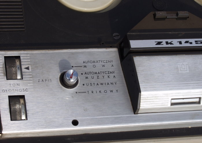 Mode selector for record automatics circuit in ZK-145